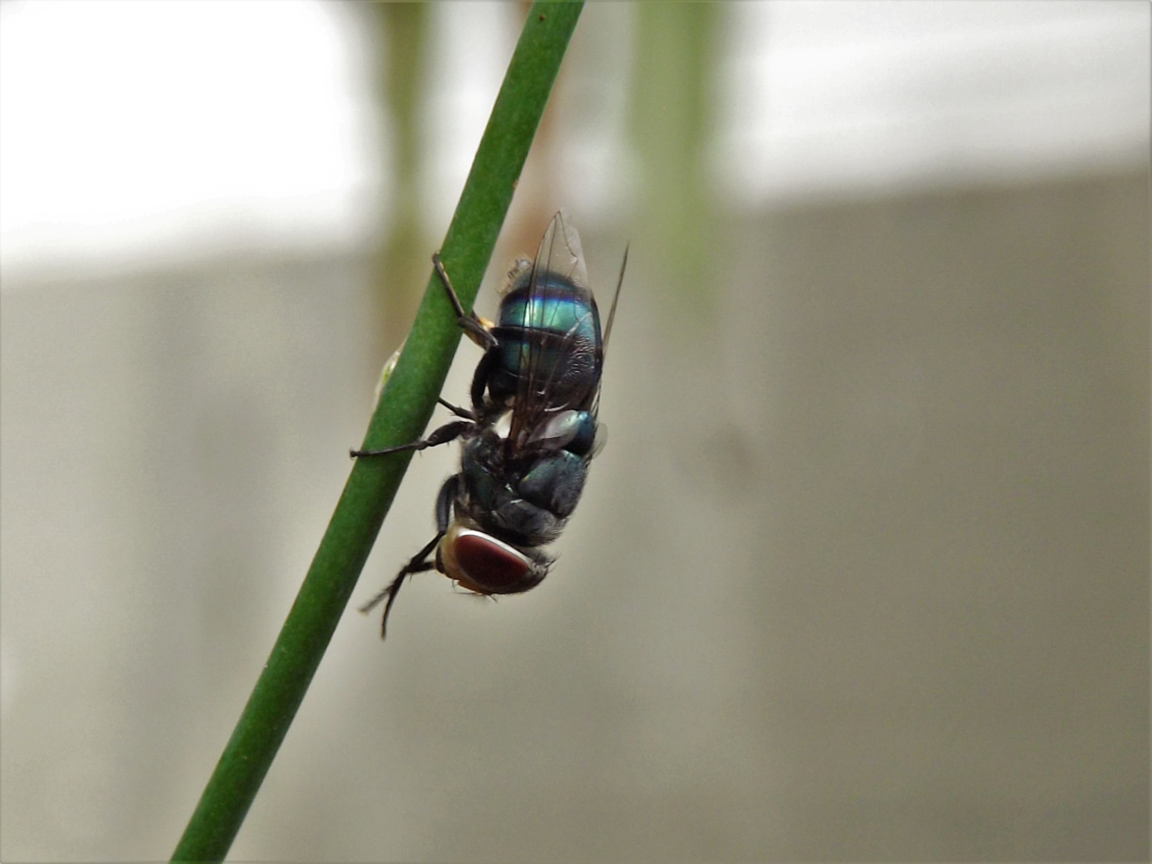 "Bluebottle fly" (Calliphoridae) Possibly Chrysomya sp?